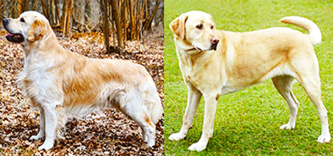 Research comparing dogs with different coat lengths has demonstrated FGF5 as a major contributing factor [11][12][21]